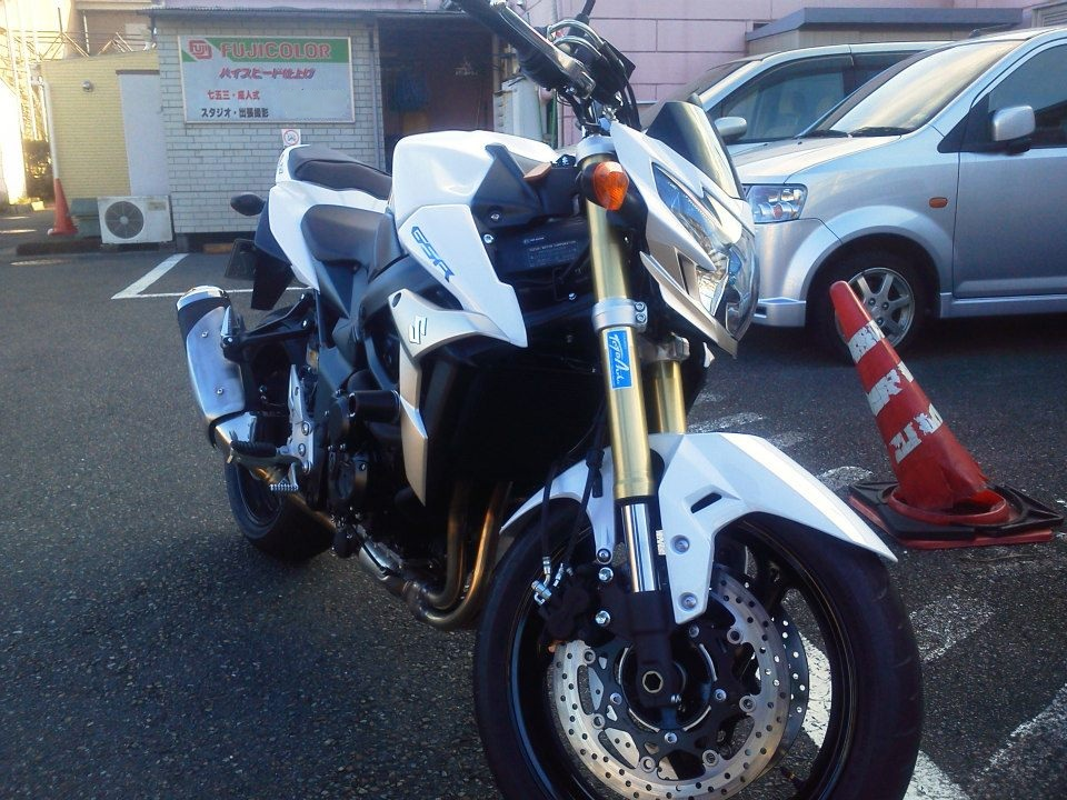 GSR750ABS2012